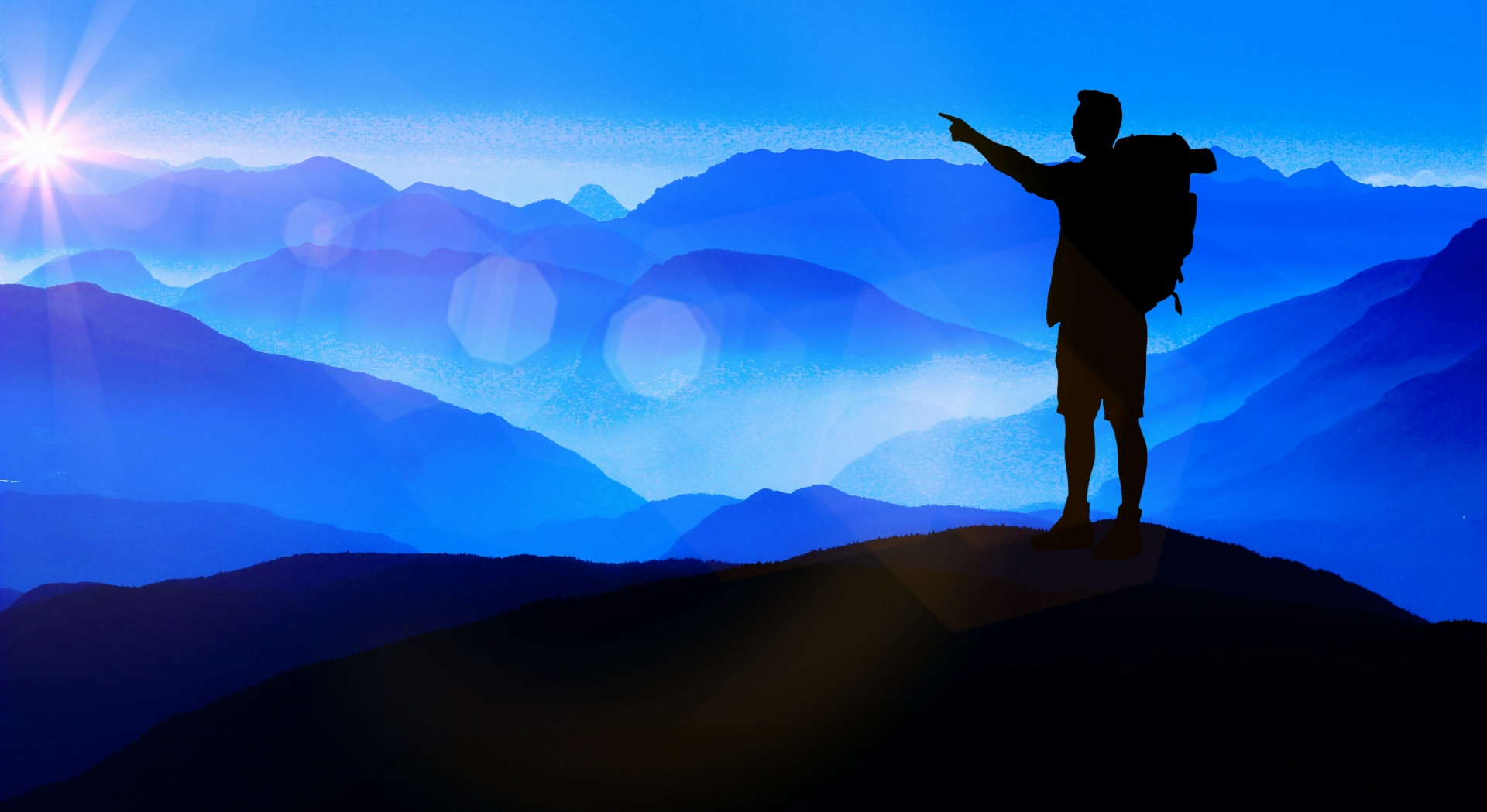 Man on Mountain